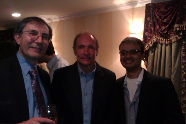 Sanjiv Rai with Sir Tim Berner Lee 2012